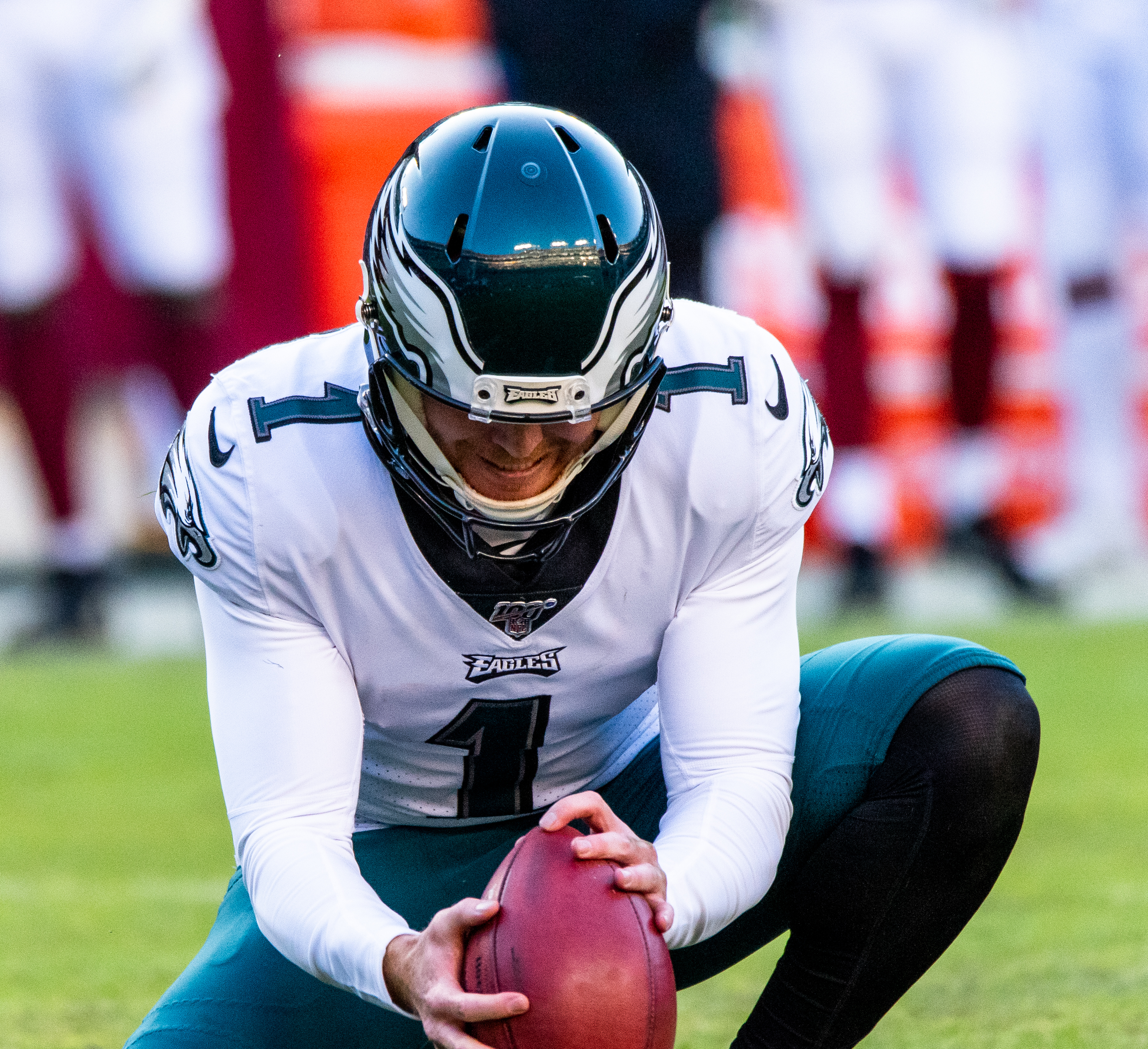 Johnston sets the football